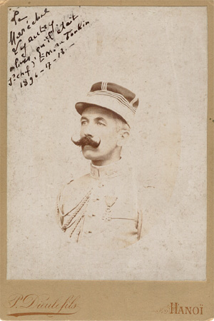 Description=Louis Hubert Gonzalve Lyautey (November 17, 1854 - July 27, 1934) was a French general, the first Resident-General in Morocco.